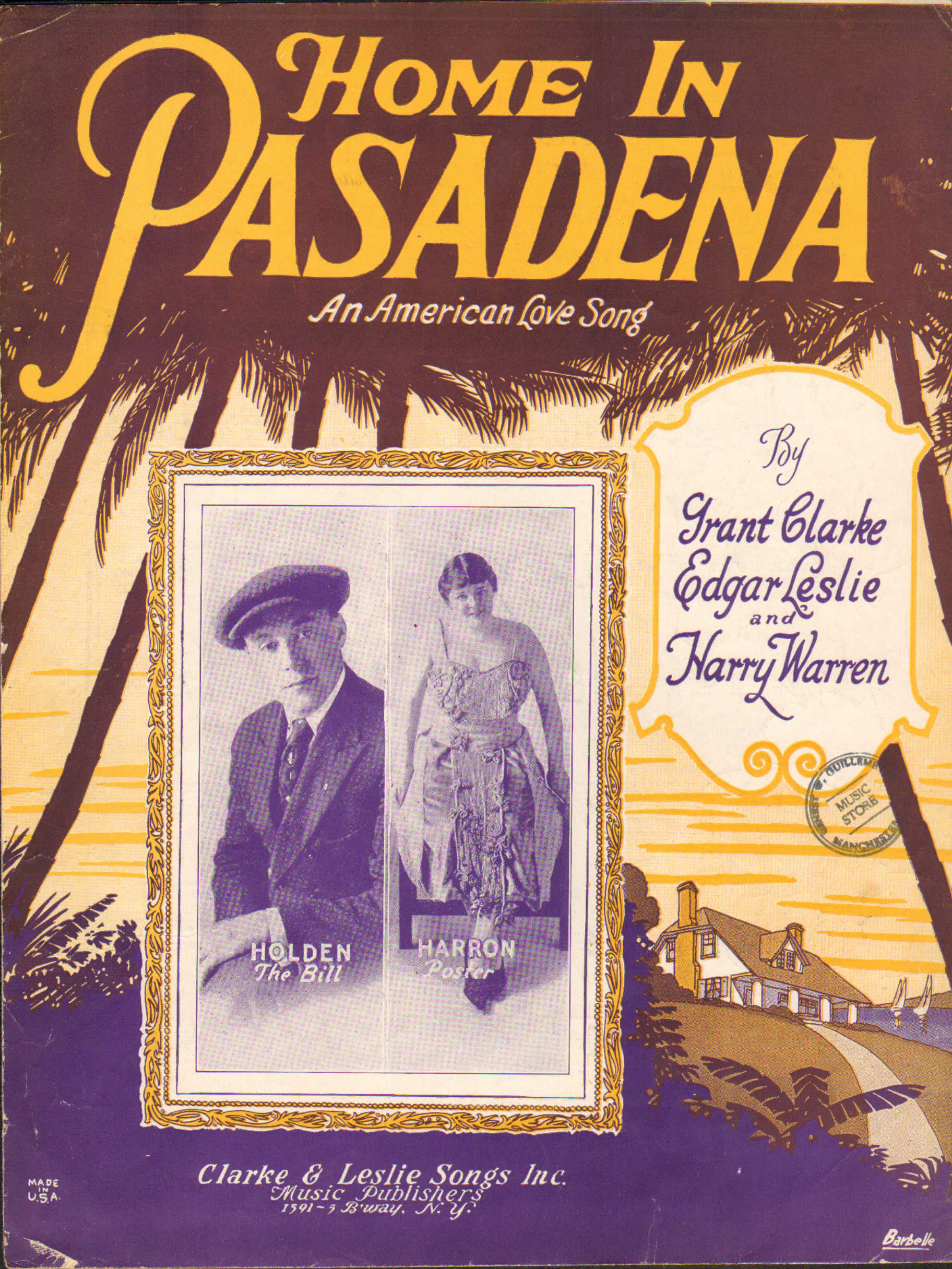 Home in Pasadena sheet music cover. Composed by Grant Clarke, Edgar Leslie, Harry Warren. Published by Clarke & Leslie Songs Inc.